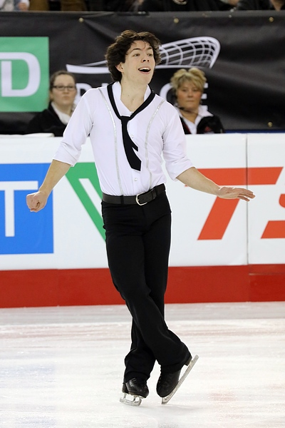 Keegan Messing at the 2017 Canadian Figure Skating Championships